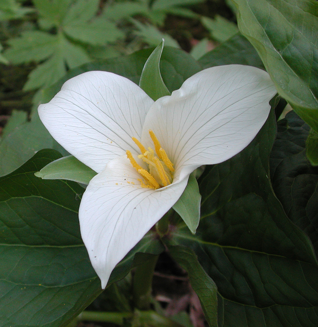 Western trillium (trillium ovatum) along the Ruth Pennington Trillium Trail in Tryon Creek State Natural Area in Portland, Oregon.